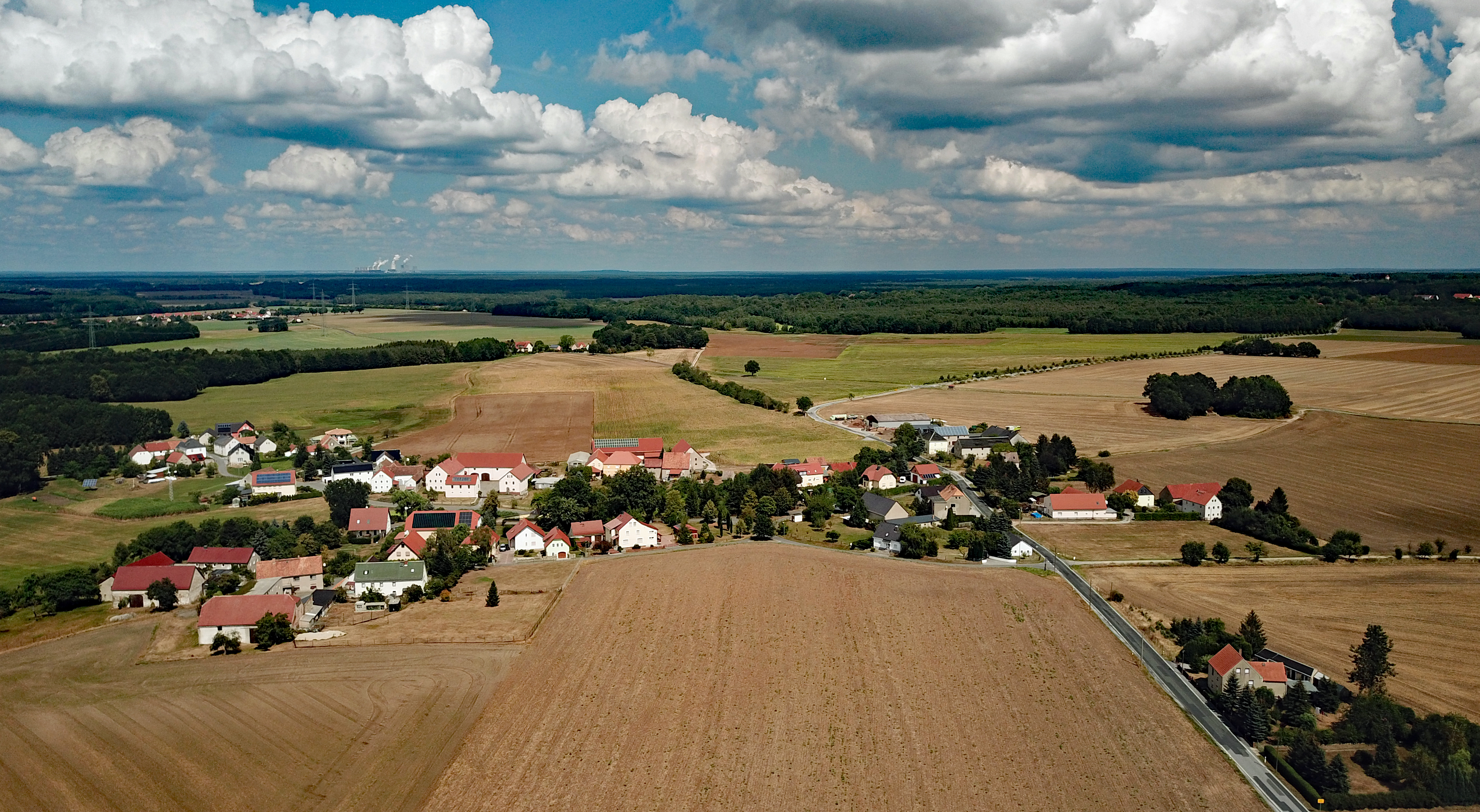 Camina (Radibor, Saxony, Germany) Hornjoserbsce: Powětrowy wobraz Kamjeneje pola Radworja